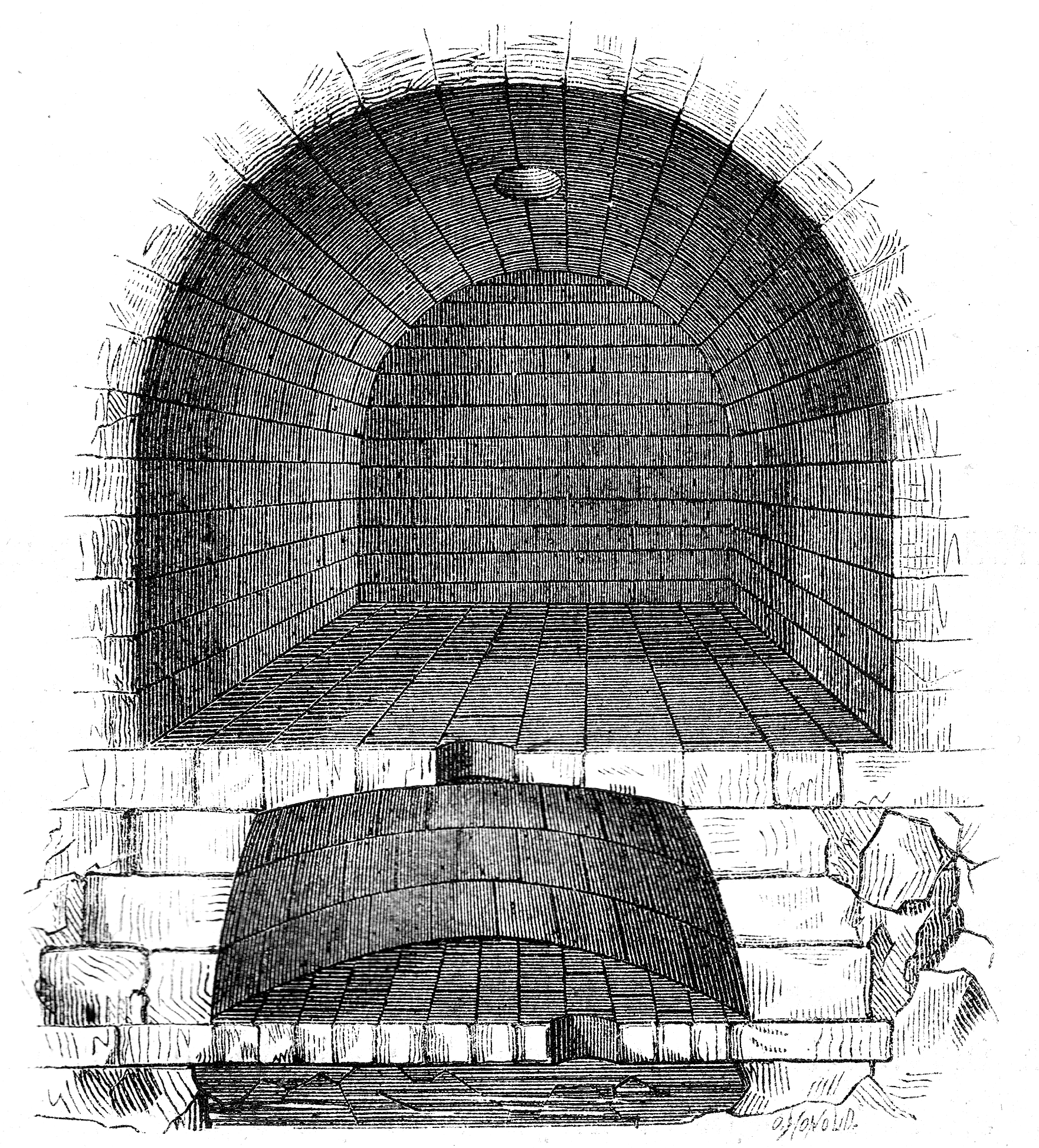 Illustration from "Illustrerad verldshistoria utgifven av E. Wallis. volume II": The Mamertine Prison.